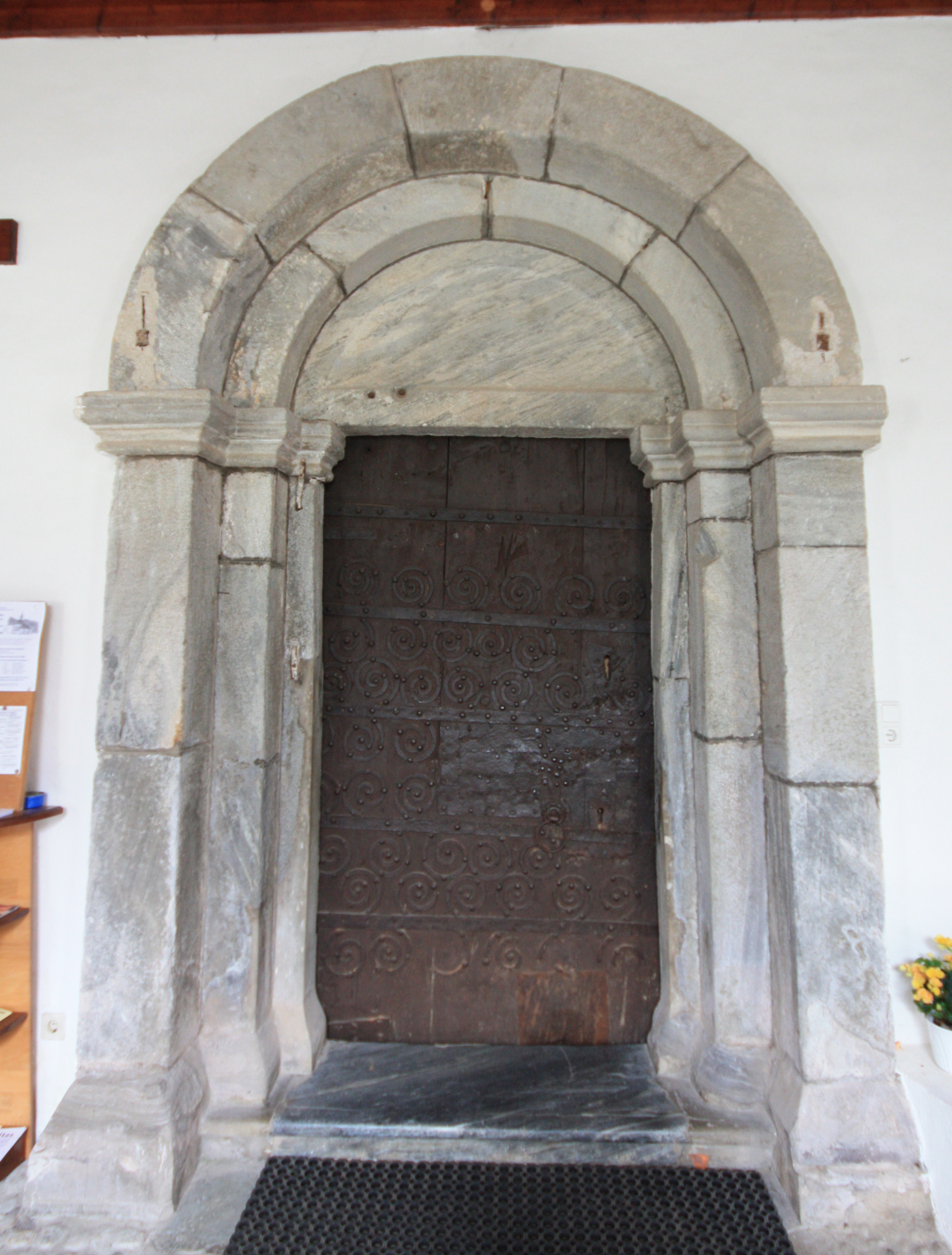 Door of the parish-church Hohenfeld, near Straßburg, Carinthia